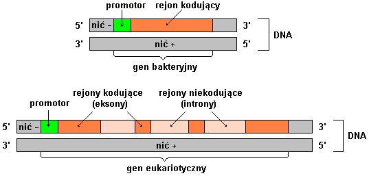 Gene of procaryota and eucaryota